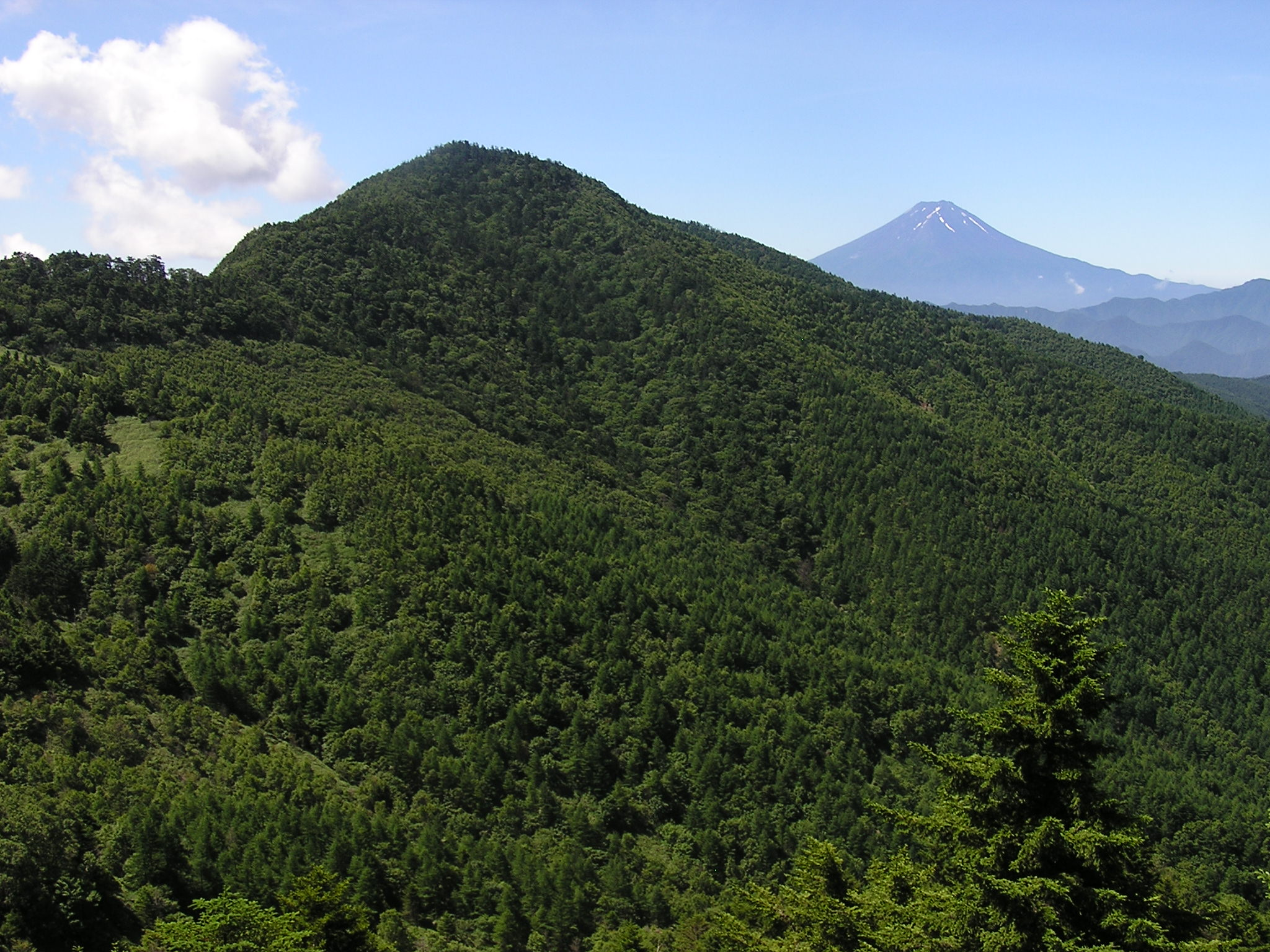 Mount Koganesawa and Mount Fuji as seen from the north.